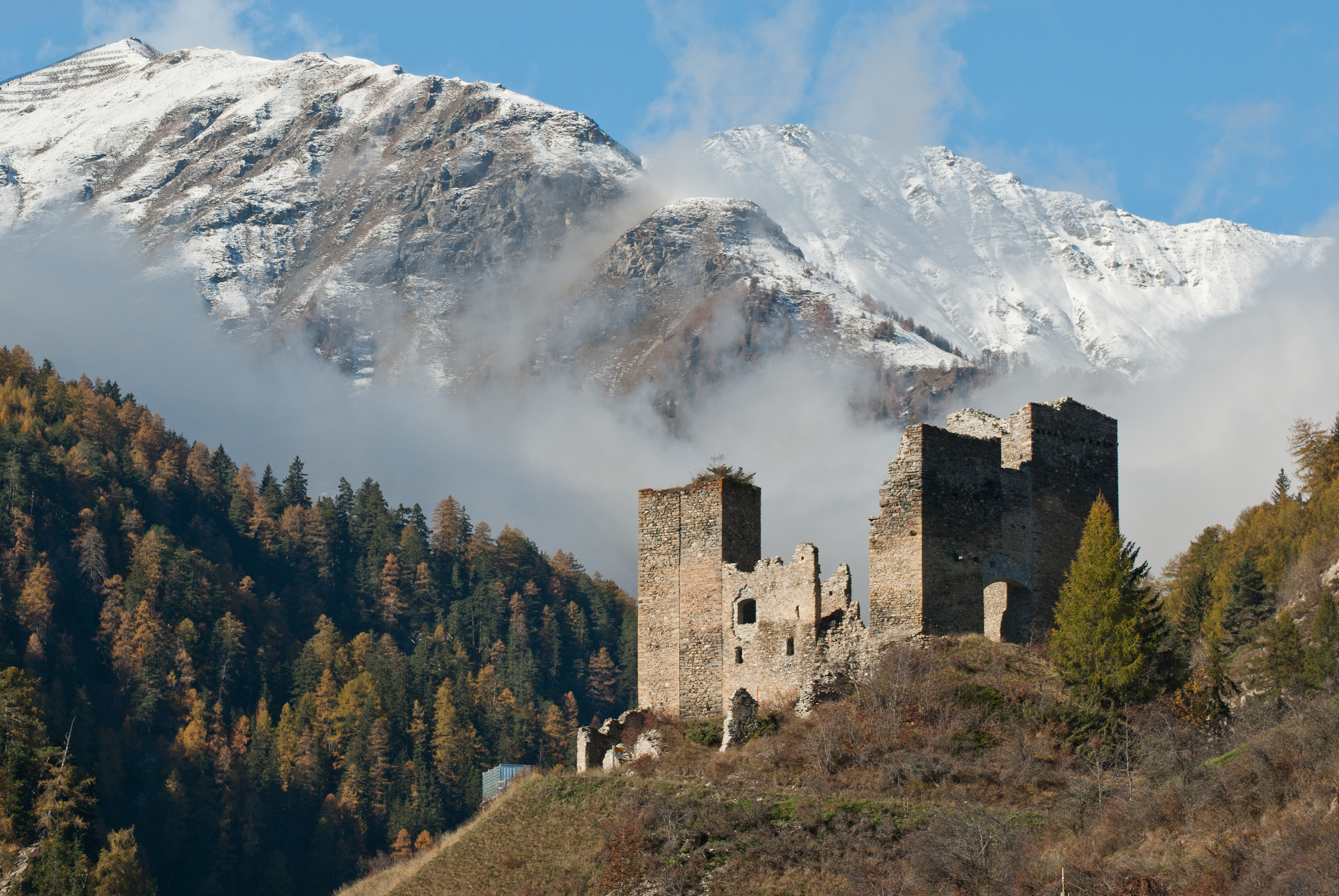 Tschanüff castle, in the background parts of the Piz Spadla mountain, in Switzerland.